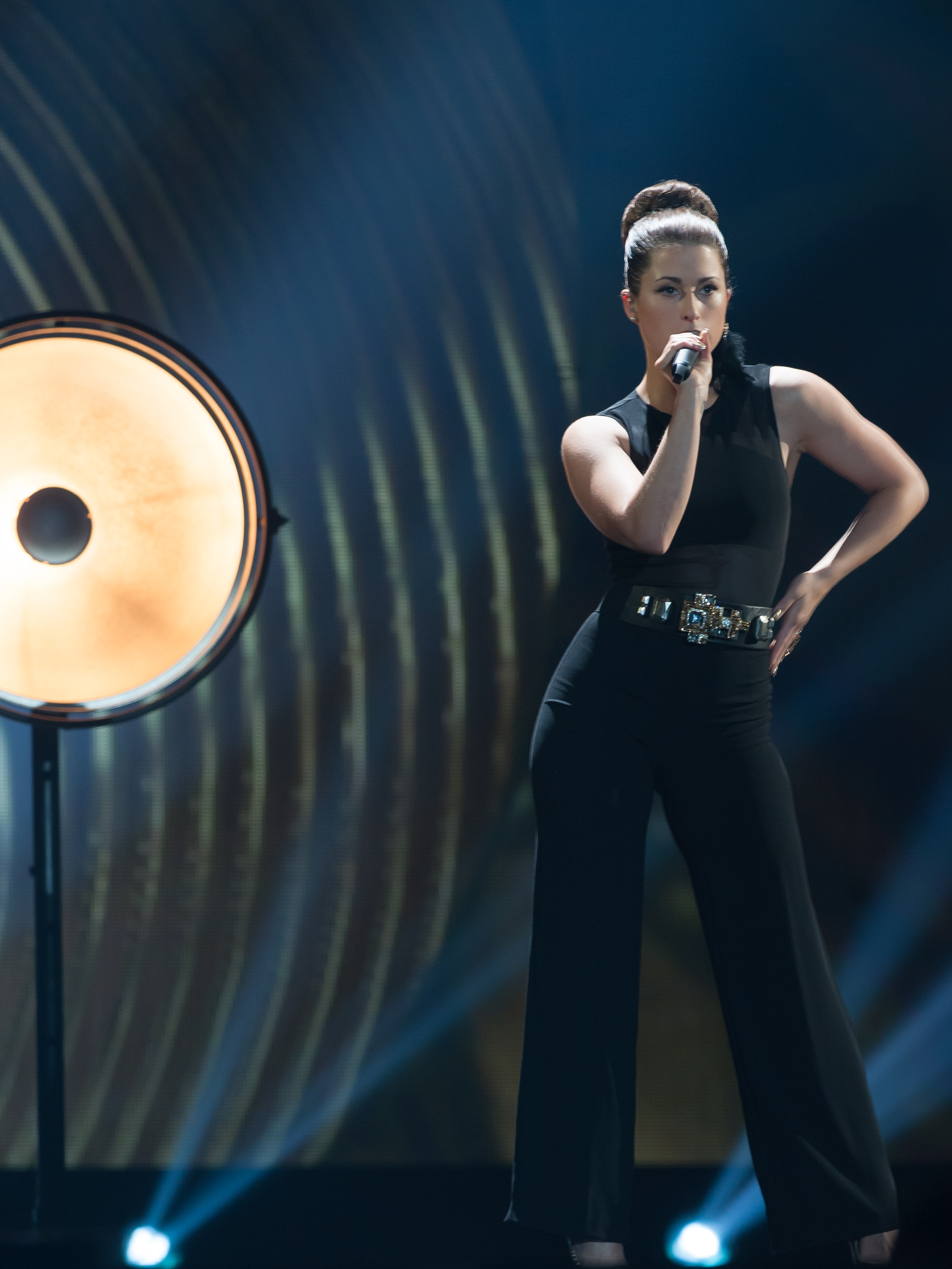 Eurovision Song Contest Vienna 2015: Ann Sophie